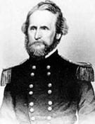 (Engraving of Brig. Gen. Nathaniel Lyon.)